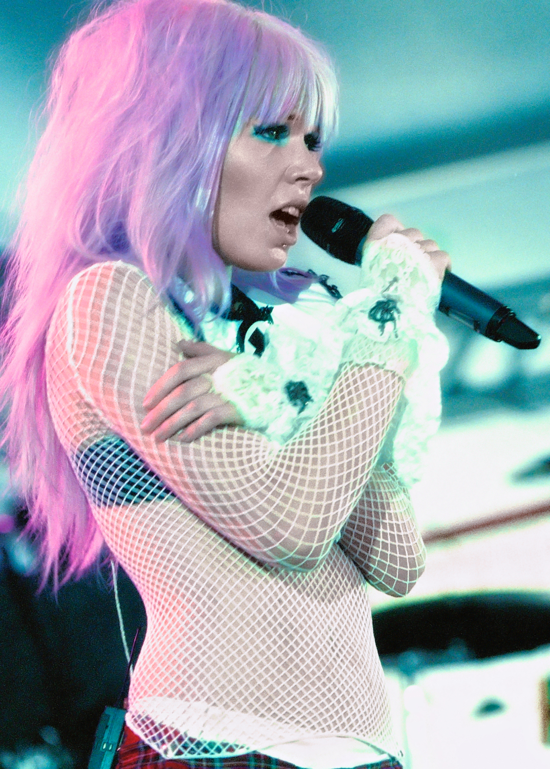 Kerli, performing at the Kanrocksas Music Festival in Kansas, USA on 6 August 2011. Photographed on Fuji 400H Pro color film.